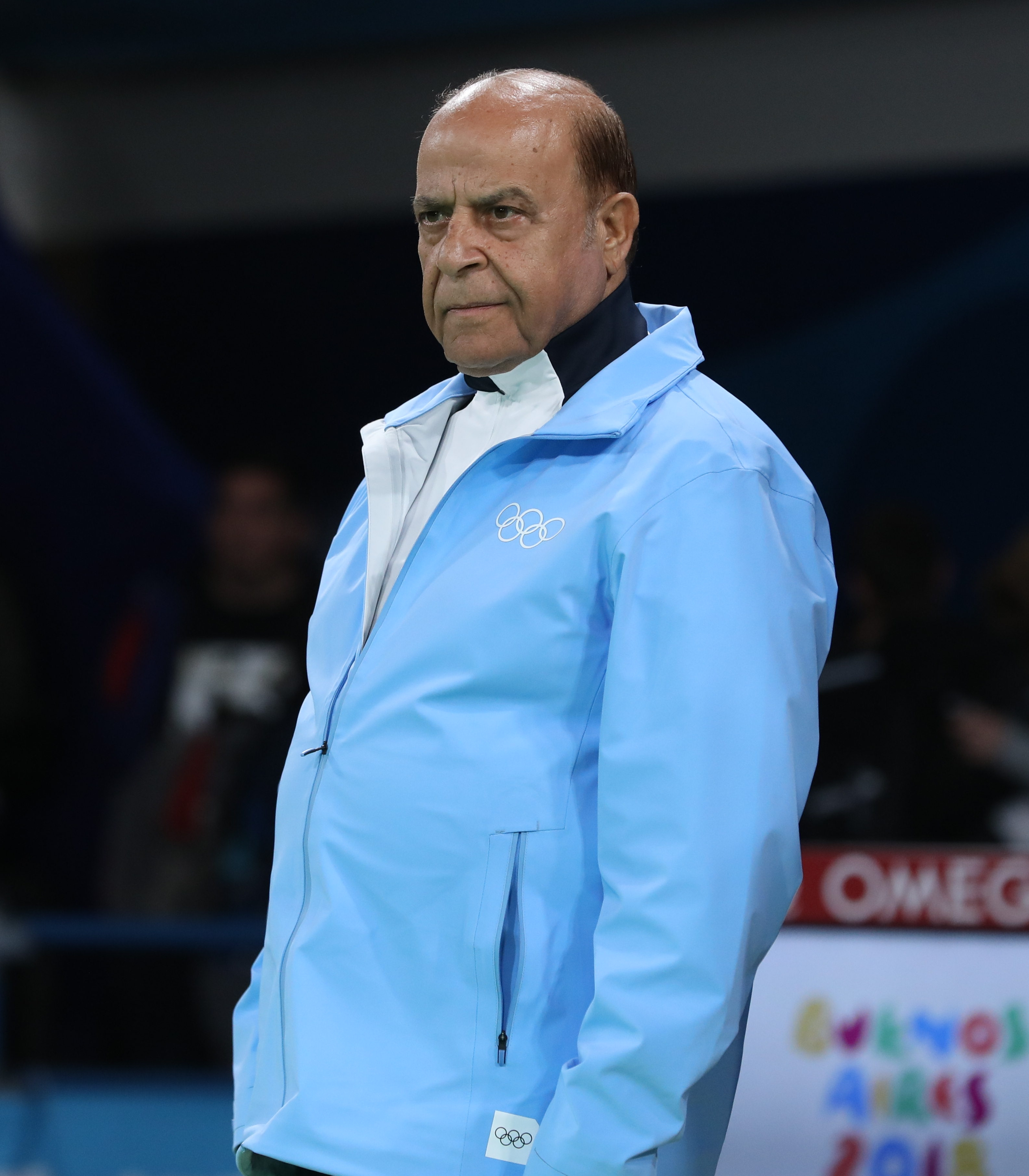 Taekwondo +63 kg female: Victory ceremony